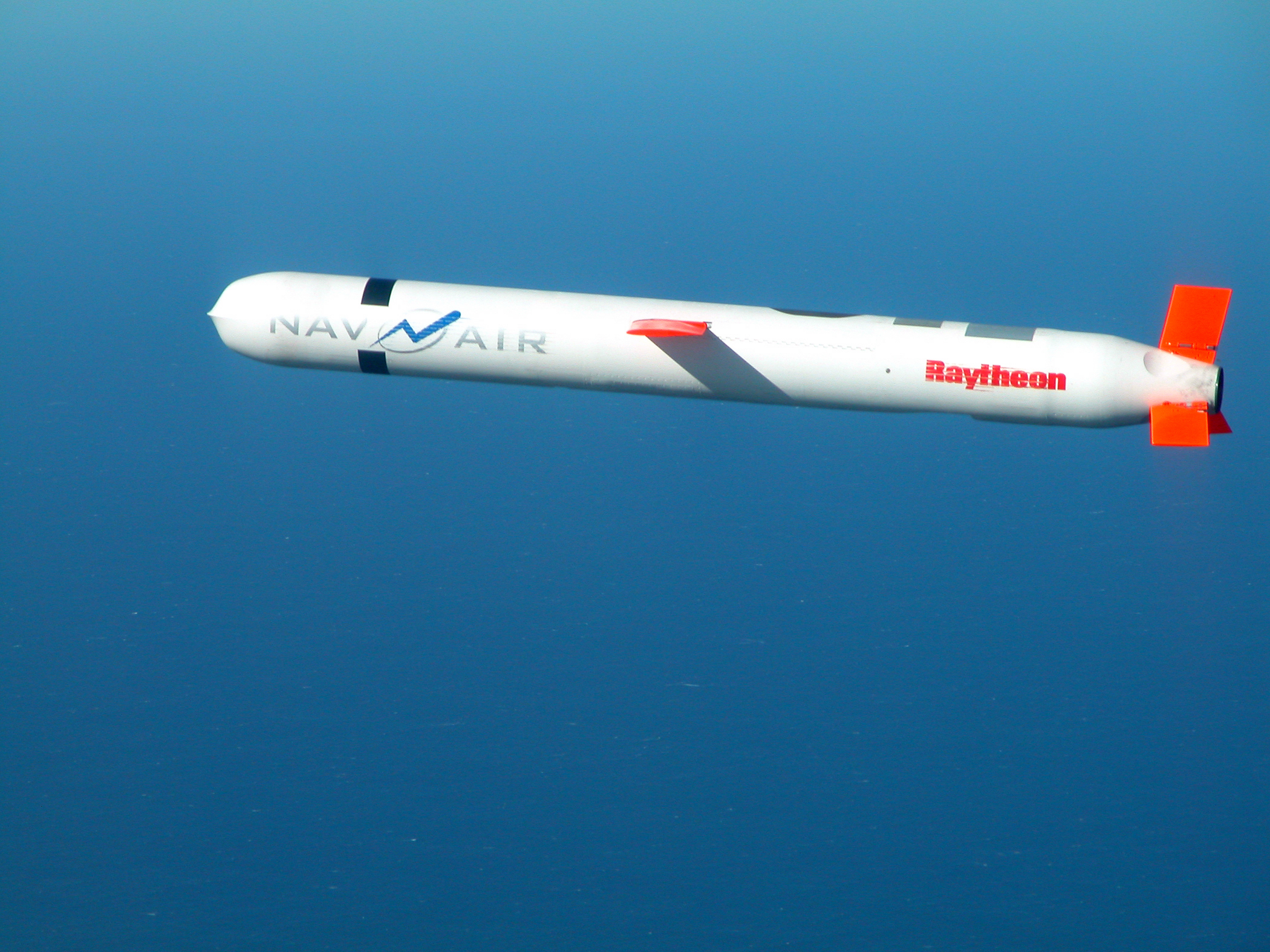 021110-N-0000X-003 China Lake, Calif. (Nov. 10, 2002) -- A Tactical "Tomahawk" Block IV cruise missile, conducts a controlled flight test over the Naval Air Systems Command (NAVAIR) western test range complex in southern California. During the second such test flight, the missile successfully completed a vertical underwater launch, flew a fully guided 780-mile course, and impacted a designated target structure as planned. The Tactical Tomahawk, the next generation of Tomahawk cruise missile, adds the capability to reprogram the missile while in-flight to strike any of 15 preprogrammed alternate targets, or redirect the missile to any Global Positioning System (GPS) target coordinates. It also will be able to loiter over a target area for some hours, and with its on-board TV camera, will allow the war fighting commanders to assess battle damage of the target, and, if necessary redirect the missile to any other target. Launched from the Navy's forward-deployed ships and submarines, Tactical Tomahawk will provide a greater flexibility to the on-scene commander. Tactical Tomahawk is scheduled to join the fleet in 2004. U.S. Navy photo. (RELEASED)